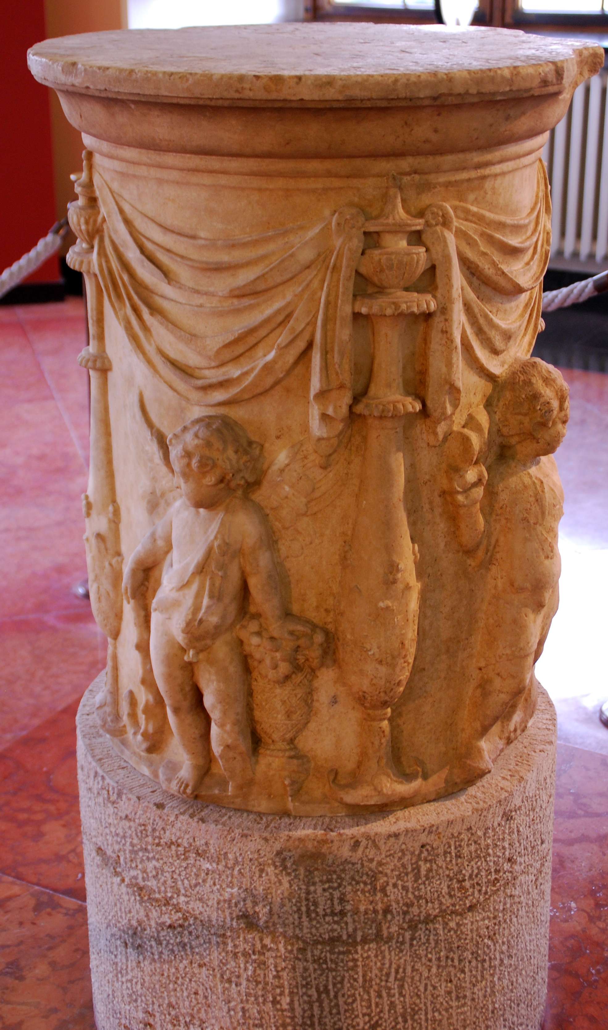 "Würzburger Vierjahreszeitenaltar", roman altar, faound 1886 in the Horti Sallustiani in Rome; 4 Puttos representing the four seasons; dated ca. 40 AD; since 1966 in the Martin von Wagner Museum in Würzburg (Inventarnumber H 5056); High 73 cm, Diameter 56,4 cm